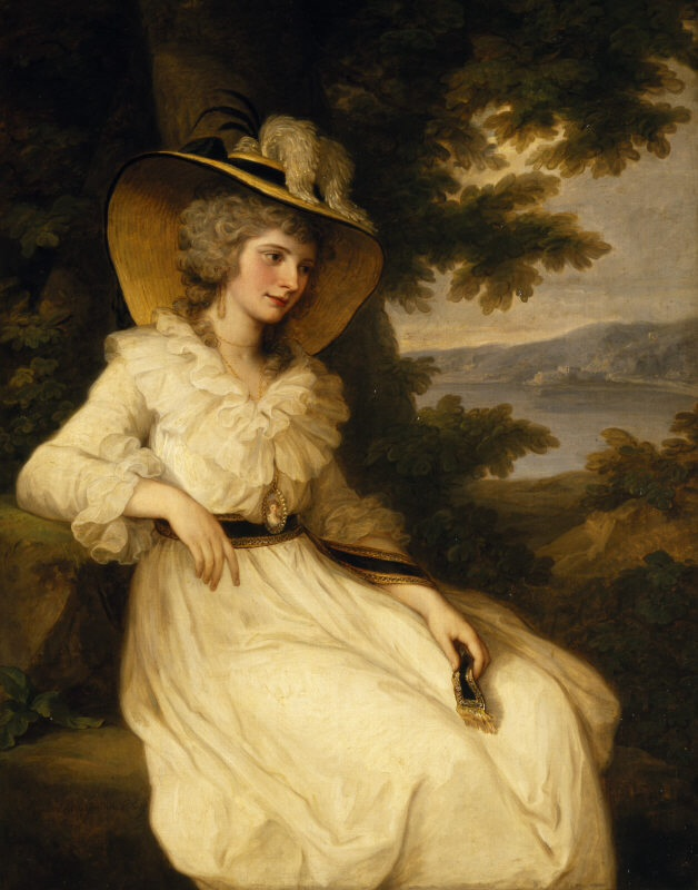 Painting of Lady Elizabeth Foster.